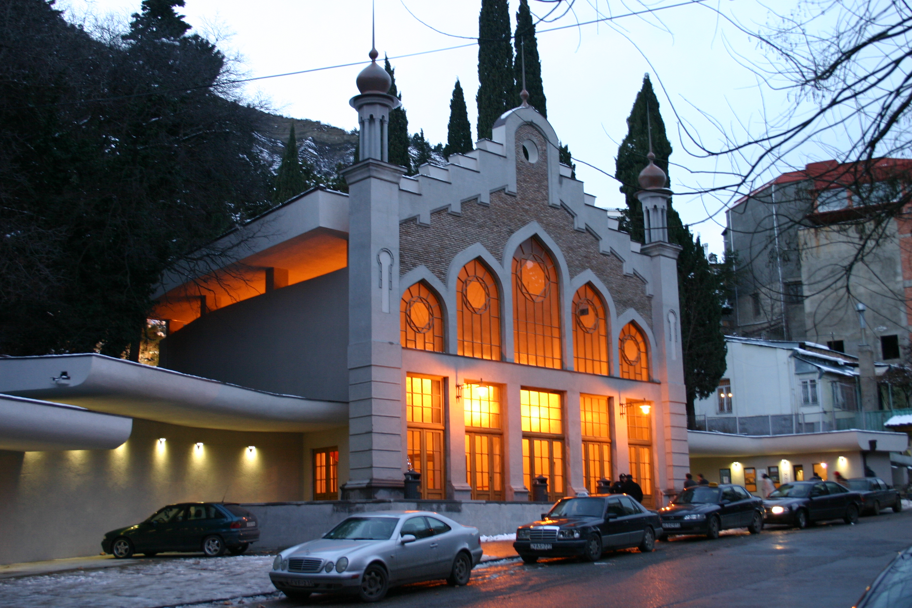 The Funicular of Tbilisi in January 2013, a couple of weeks after it was reopened in December 2012